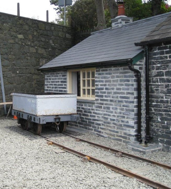 The refurbished weighbridge and rebuilt weighbridge office at Tywyn Wharf station.